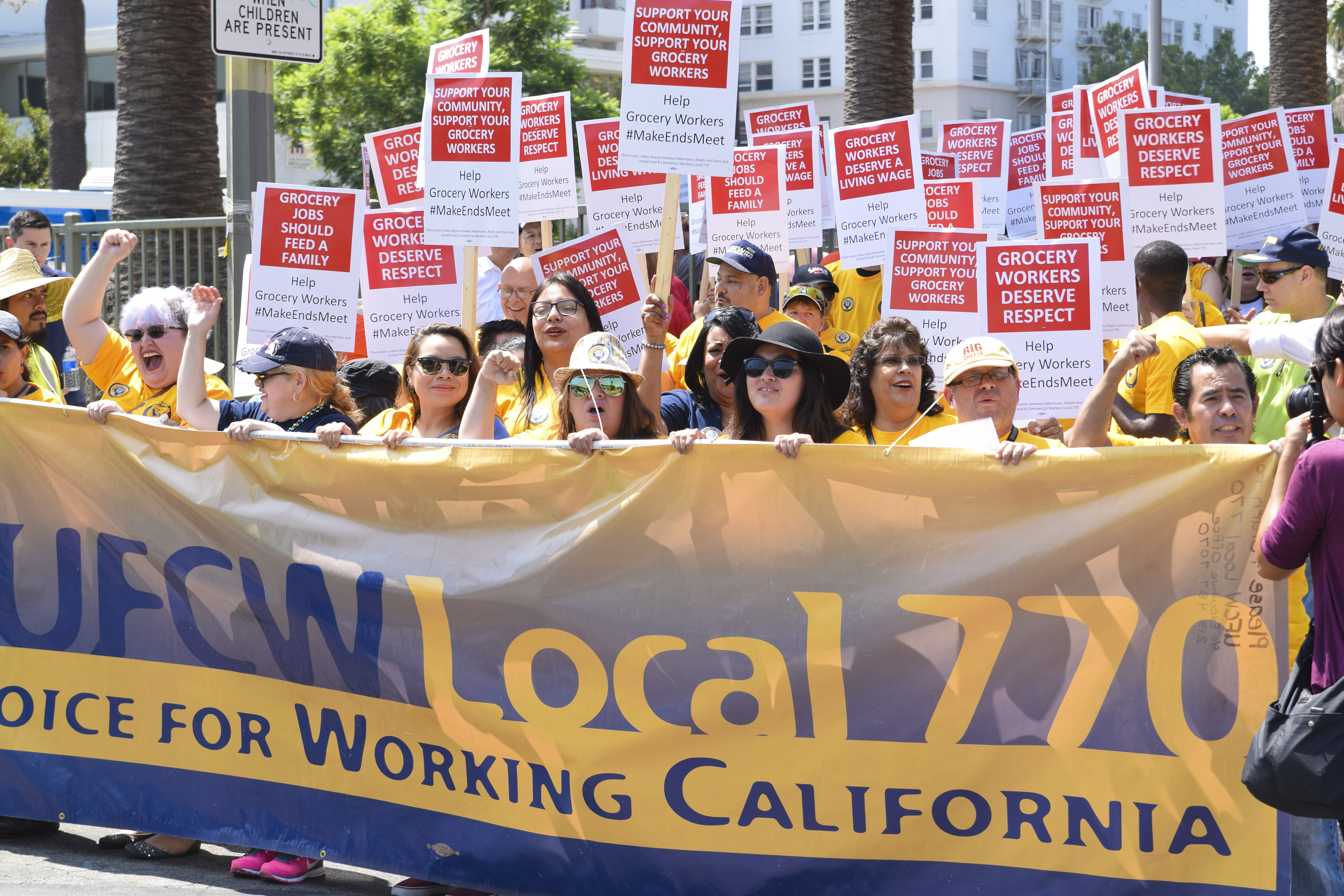 United Food and Commercial Workers gather for the Make Ends Meet Rally in California on August 2, 2016.